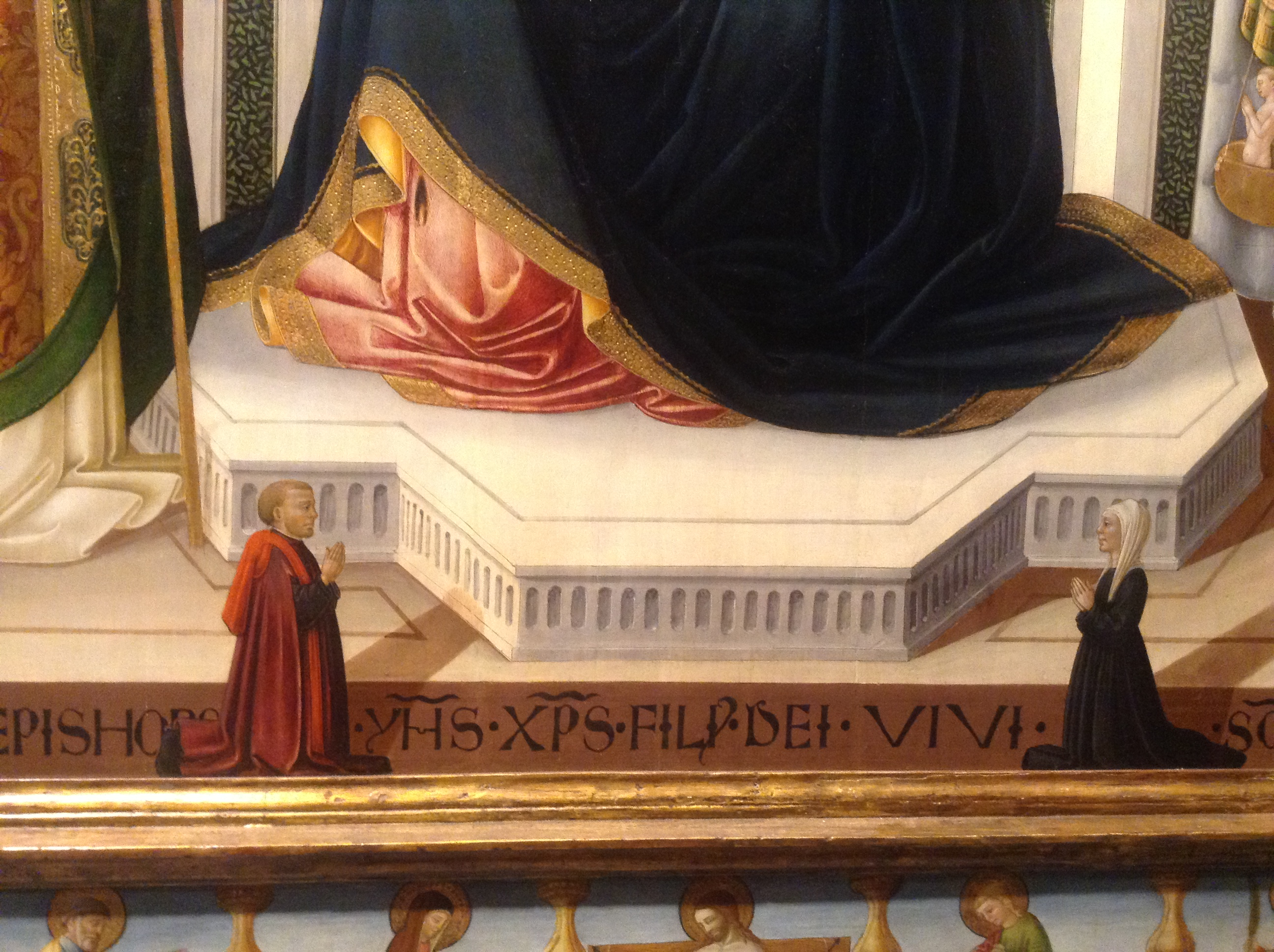 detail: of the donators as small figures